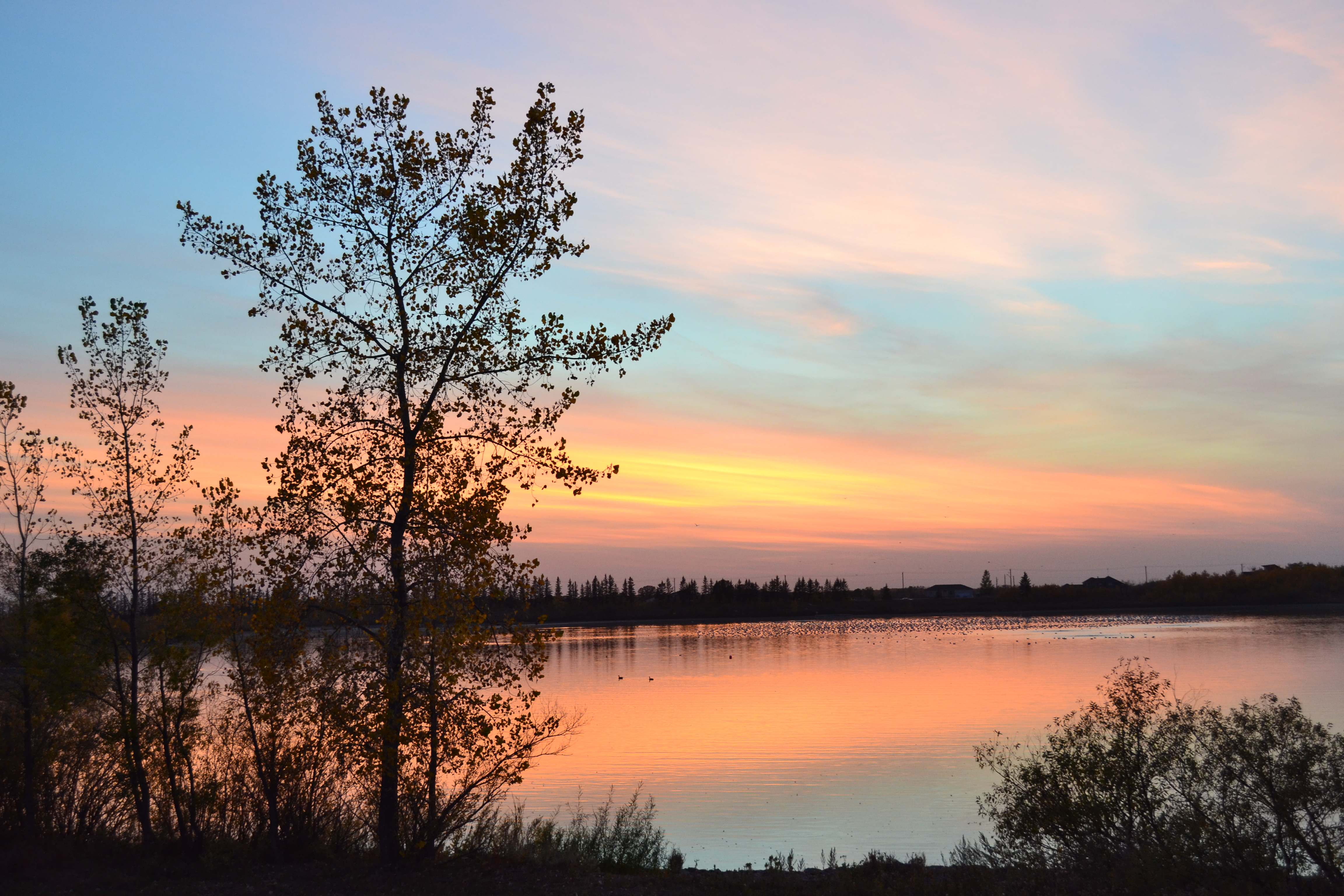 Sunset at FortWhyte, Winnipeg, Canada. Picture taken while watching geese migration at September 2012. You don't have to, but you may attribute this file to the author.